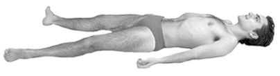 Uttara Shavásana